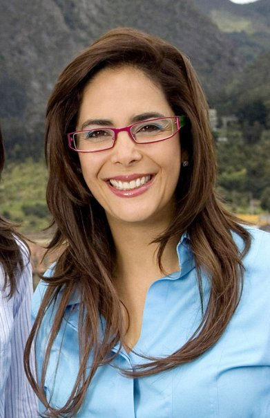 Foto